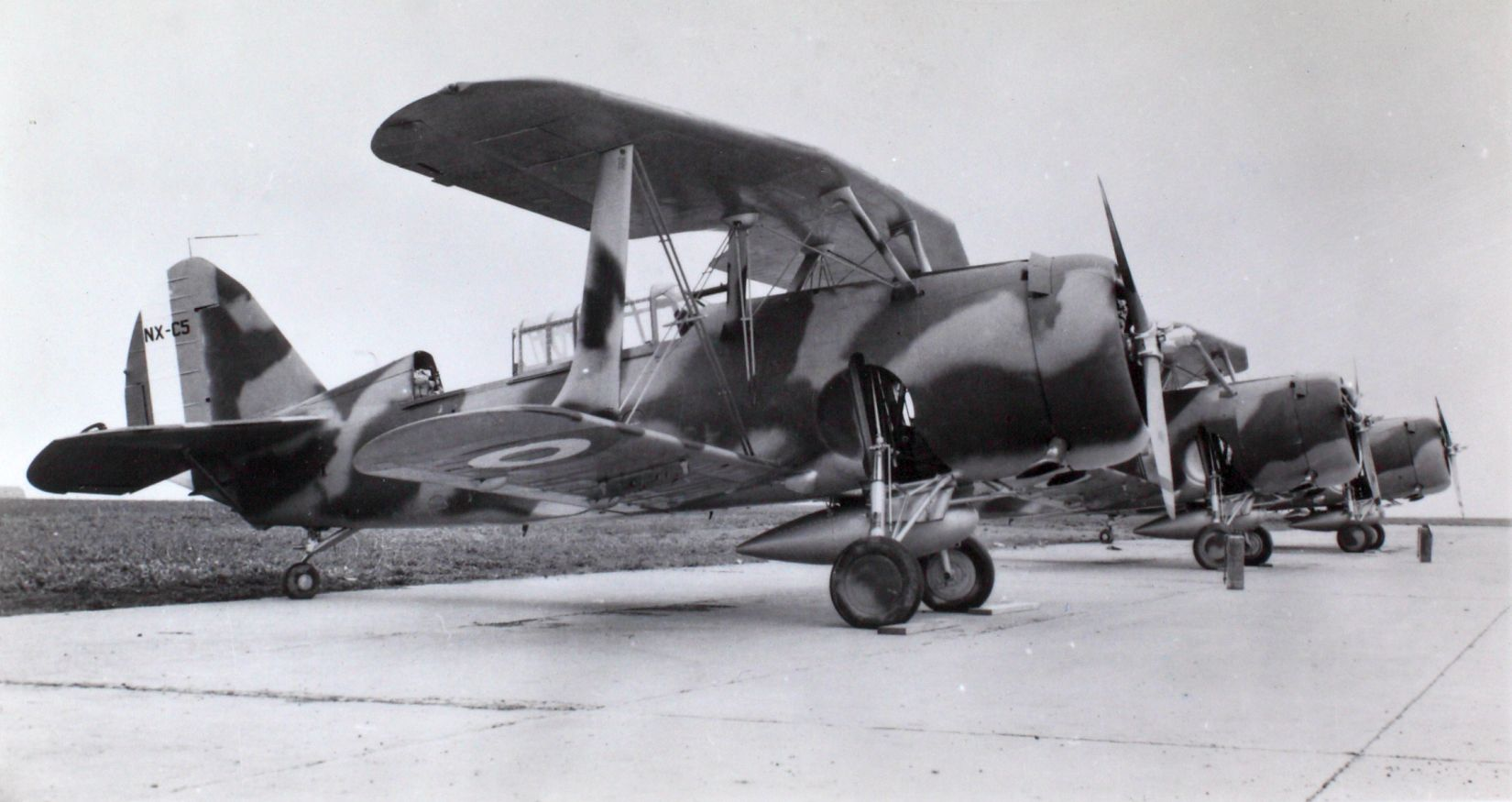 Image from the Charles Daniels Photo Collection album "British Aircraft." SOURCE INSTITUTION: San Diego Air and Space Museum Archive